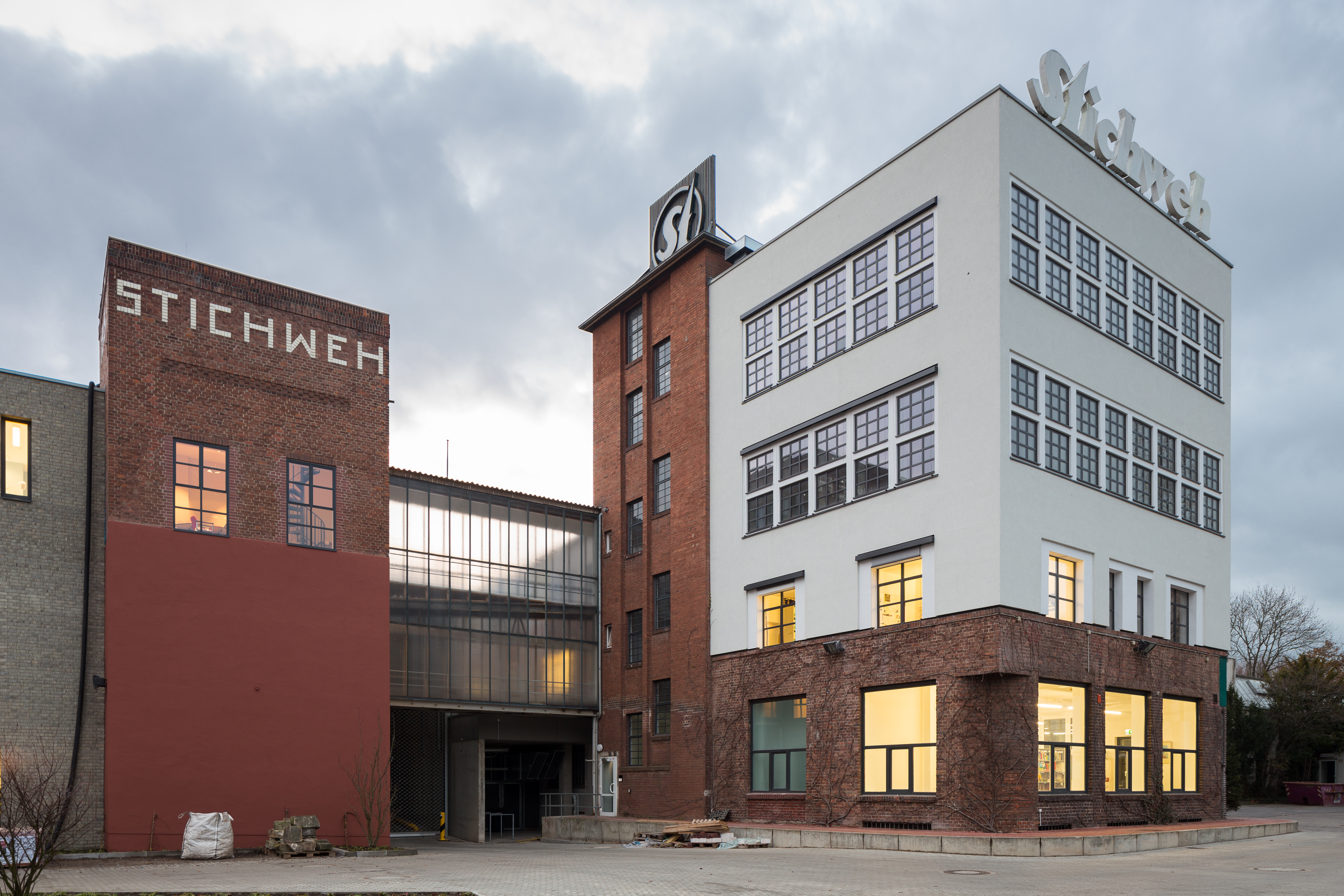 Factory building of Stichweh cleaning company, located at Faerberstrasse in Limmer district of Hanover, Germany. Rear front facing Foesse river.